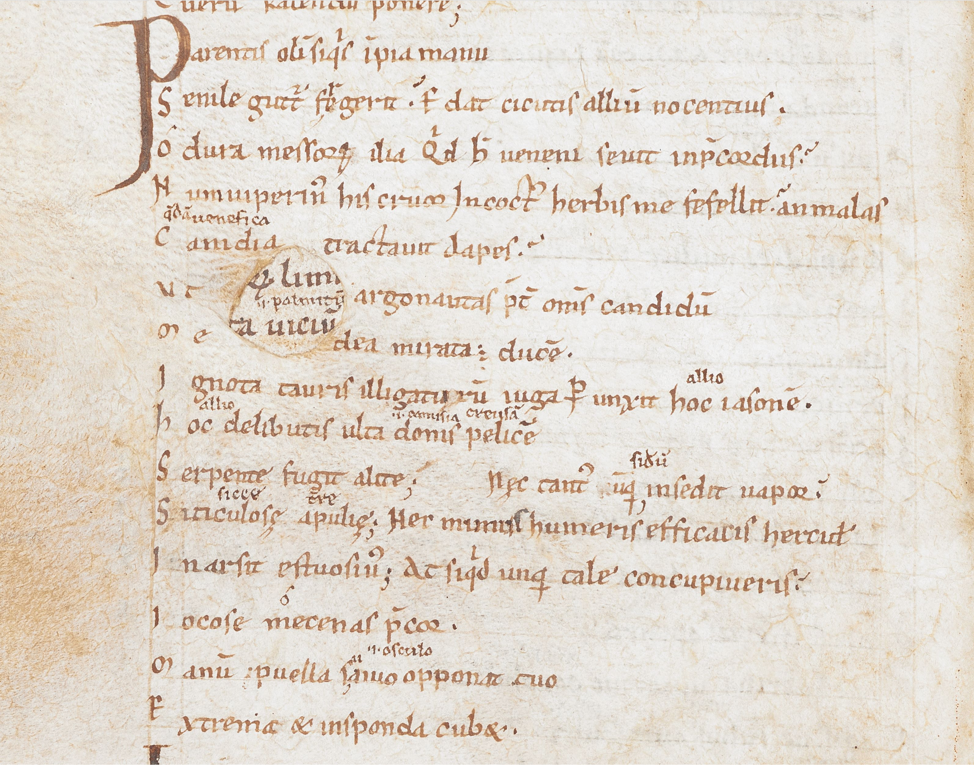 Horace Epodes III, from a 4th quarter of the C12 manuscript of his complete works, in the British Library (Harley MS 3534); f.39v, with a hole (the text itself is not lacunose) through which may be seen f.38v